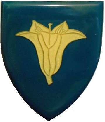 SADF era Bloemhof Commando emblem